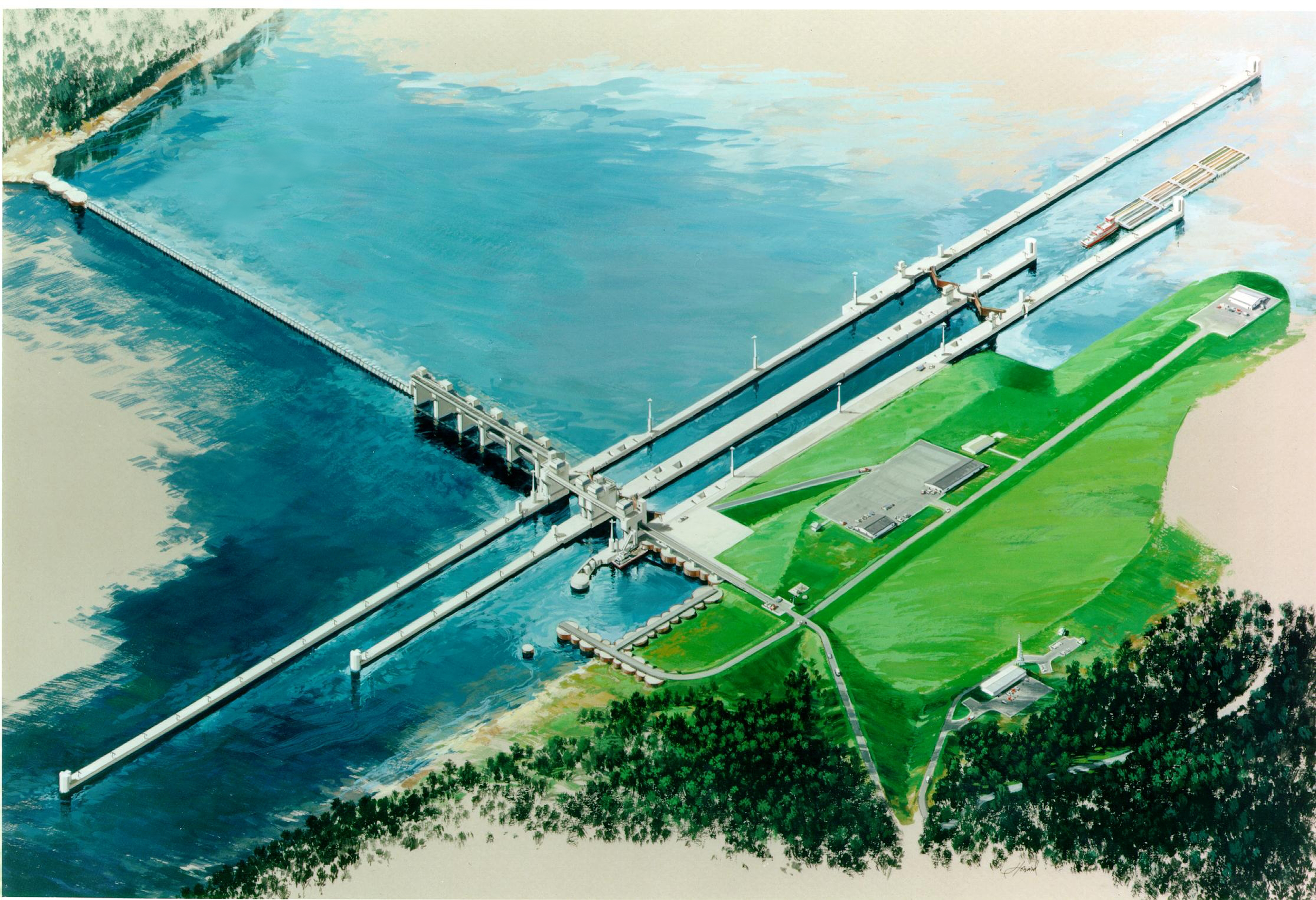 An architect's rendering of the finished Olmsted Locks and Dam project at Ohio River mile 964.4